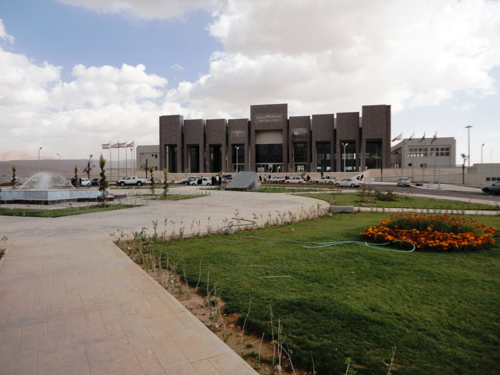 shiraz Train station